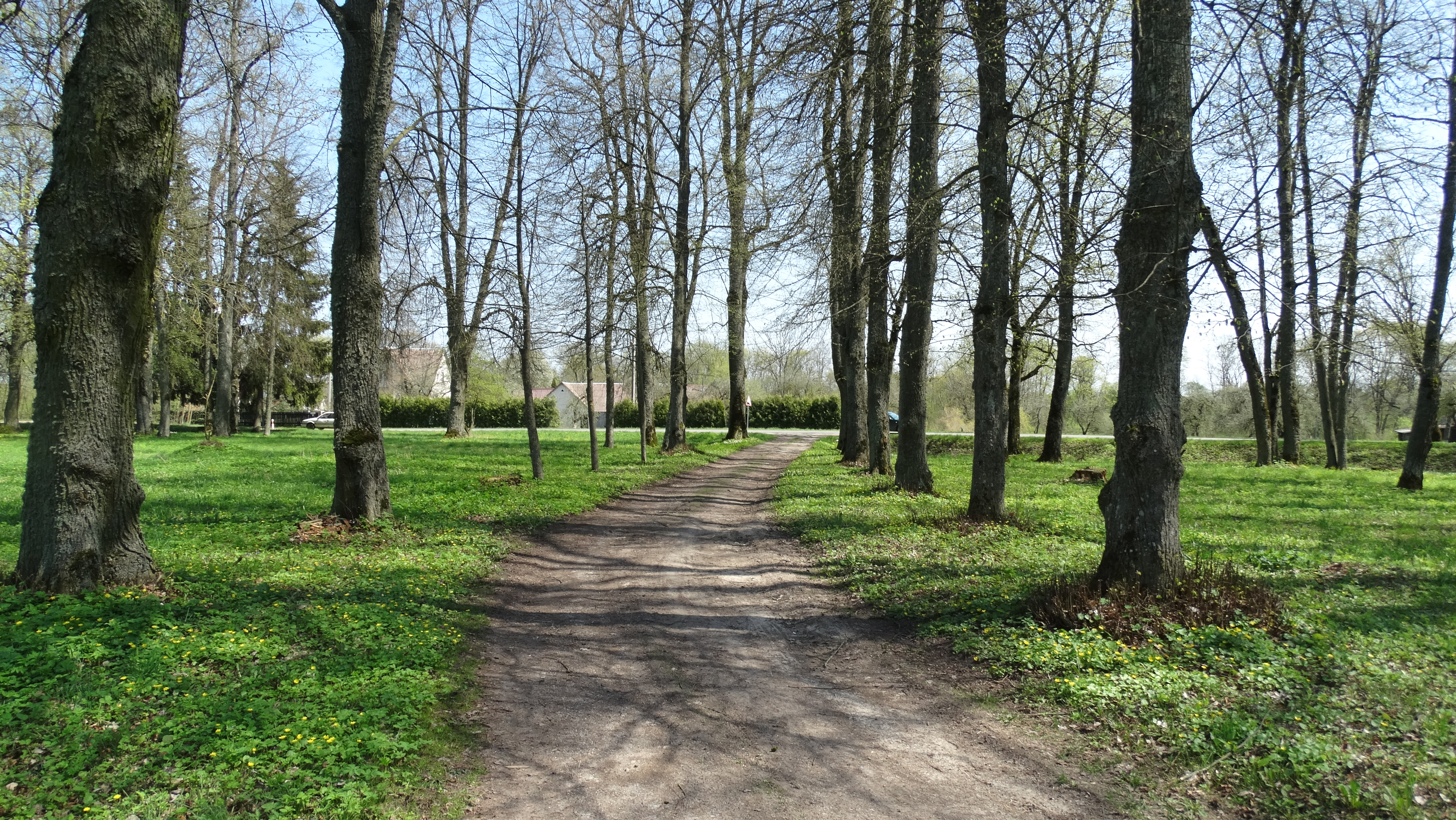 Park in Liukonys, Širvintos District, Lithuania